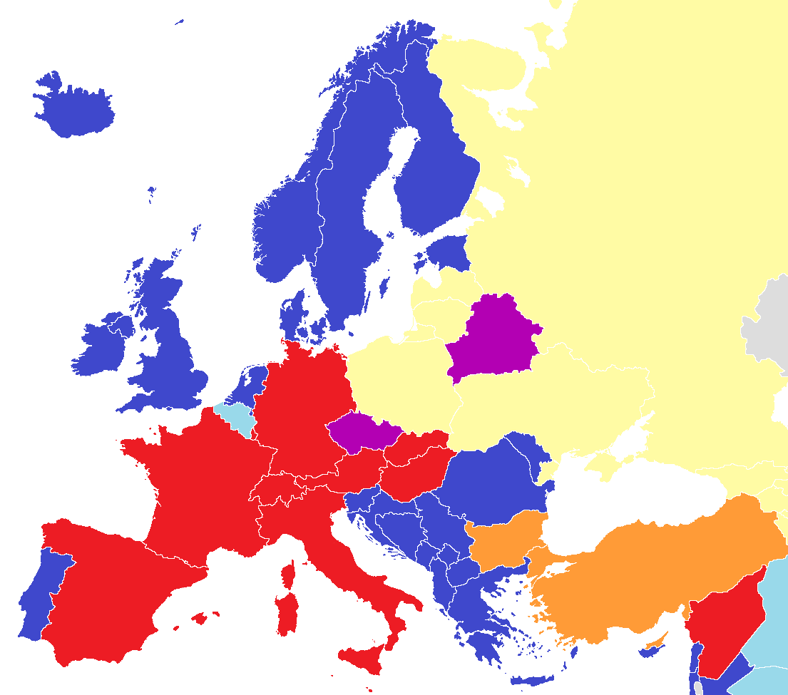 Dubbing in Europe